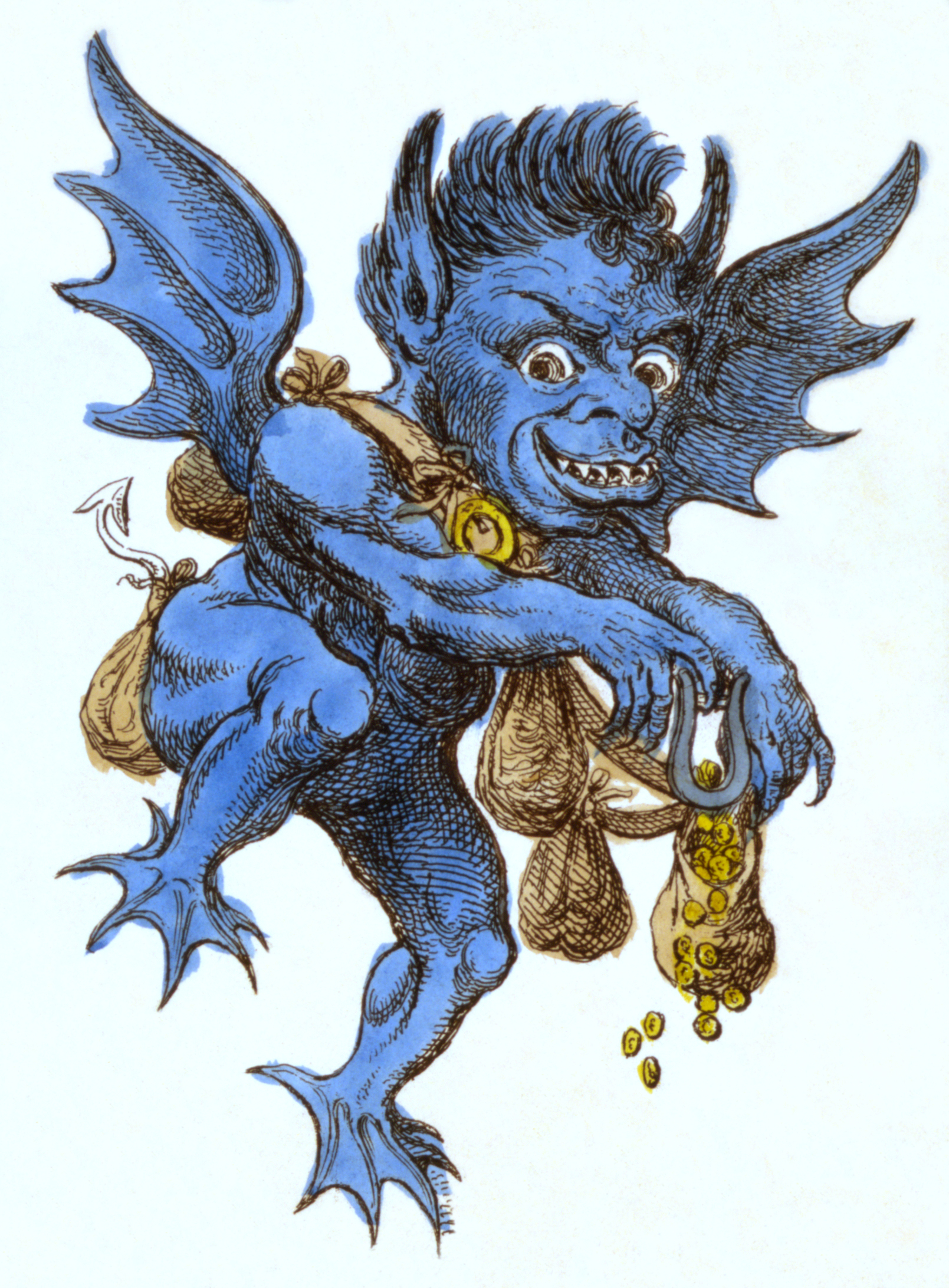 The apostrophe demon (edited detail from an 1814 cartoon called "The property tax"), Library of Congress